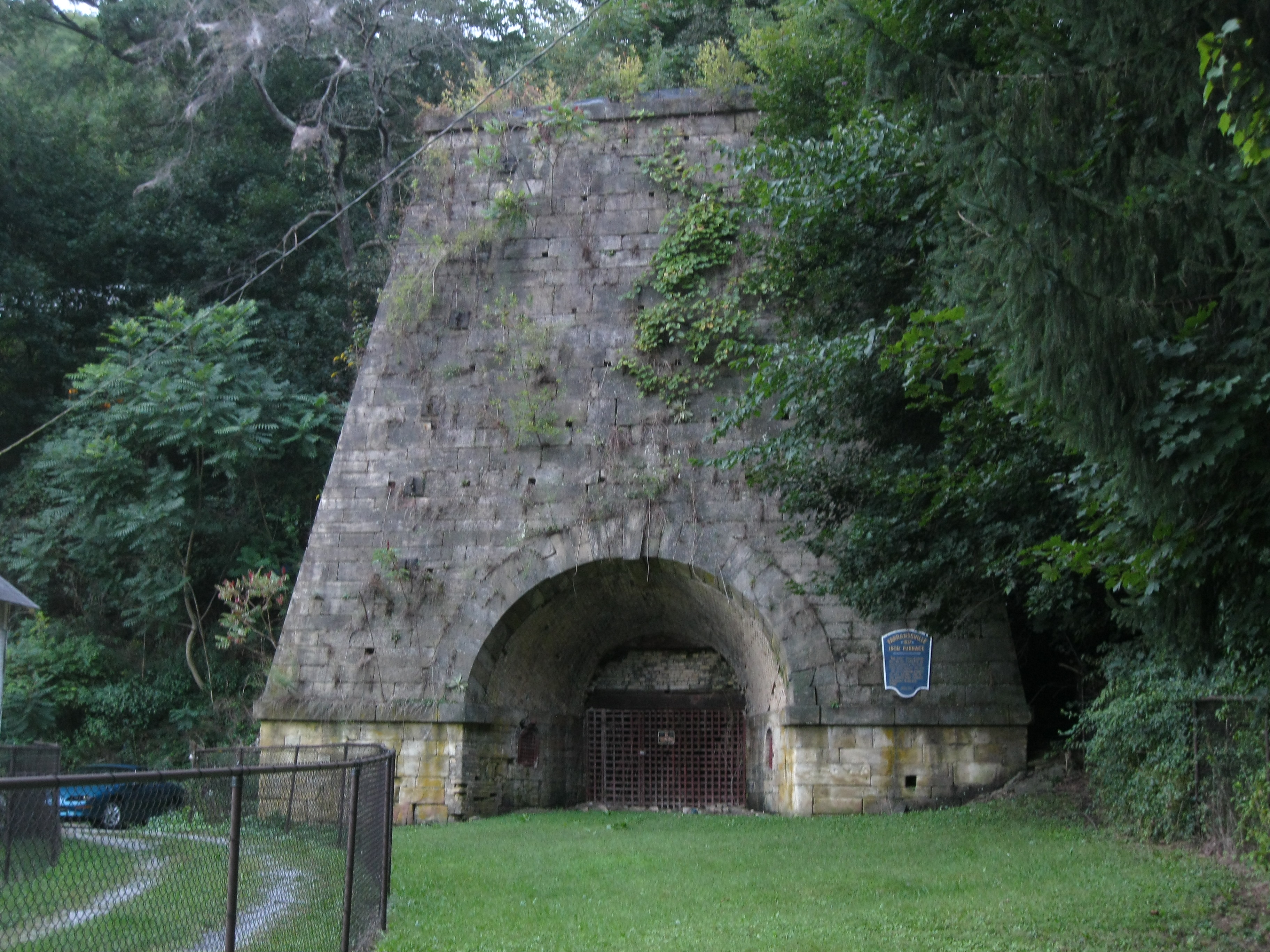 Farrandsville Iron Furnace, a historic iron furnace located at Colebrook Township in Clinton County, Pennsylvania in the USA